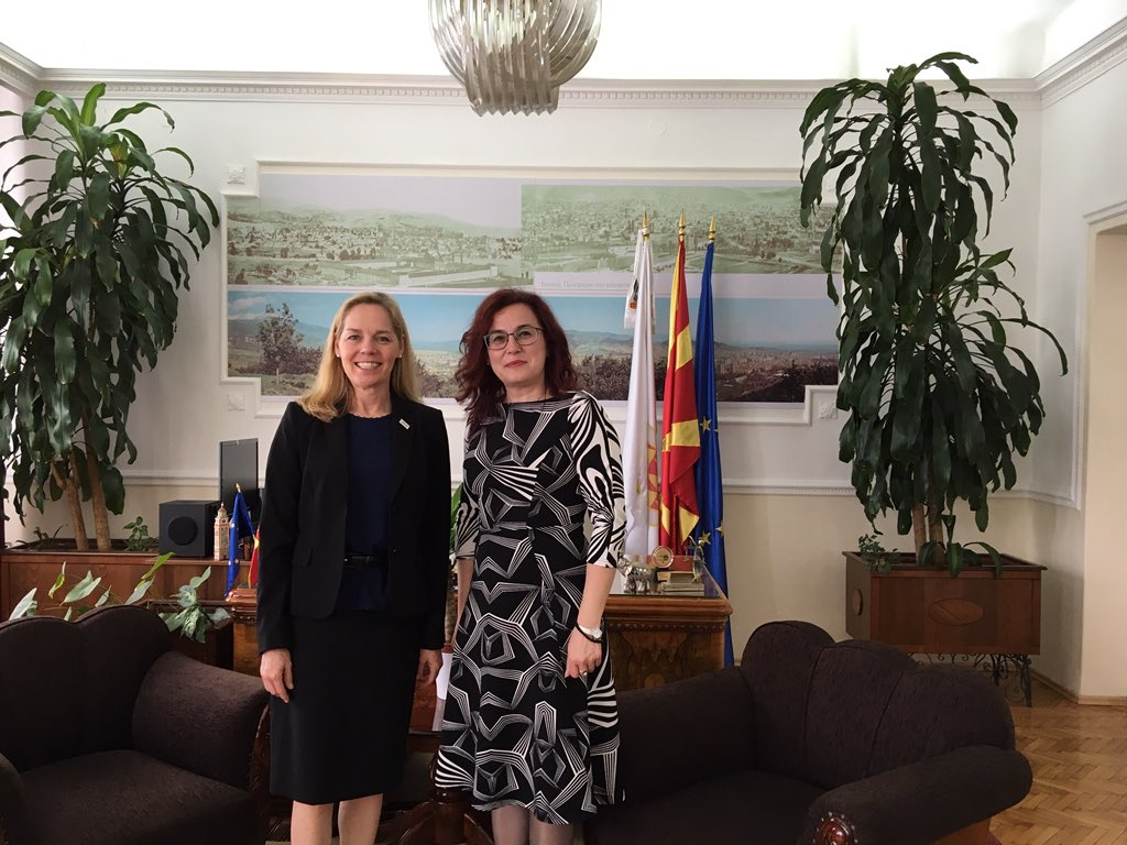 Always pleased to meet women in leadership roles. Today I met Natasha Petrovska, one of 6 women mayors in #Macedonia EmpoweredWomen #WomenLeaders